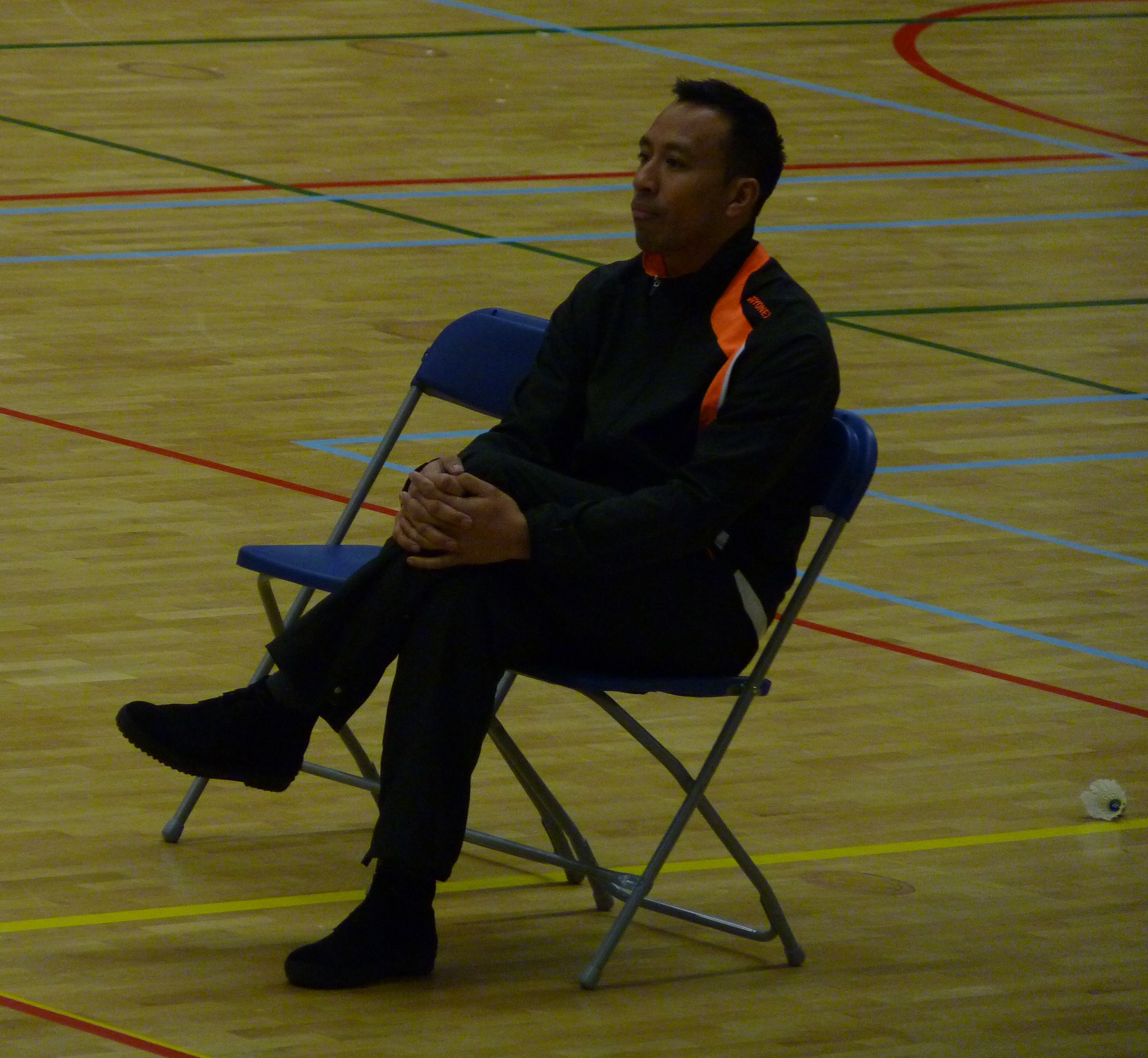 Coach Dicky Palyama (the Netherlands)